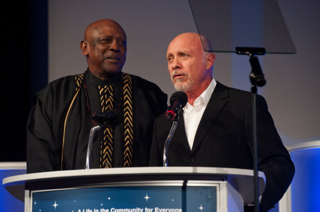 Academy Award-winning actor Louis Gossett, Jr. and Emmy Award-winning actor Hector Elizondo co-hosted the fifth anniversary Voice Awards at Paramount Studios in Hollywood on October 13. The event honored writers and producers of hit film and television productions for increasing awareness of mental health and substance use issues and spotlight story lines that illustrate the unique challenges facing military families. Photo Credit: SAMHSA